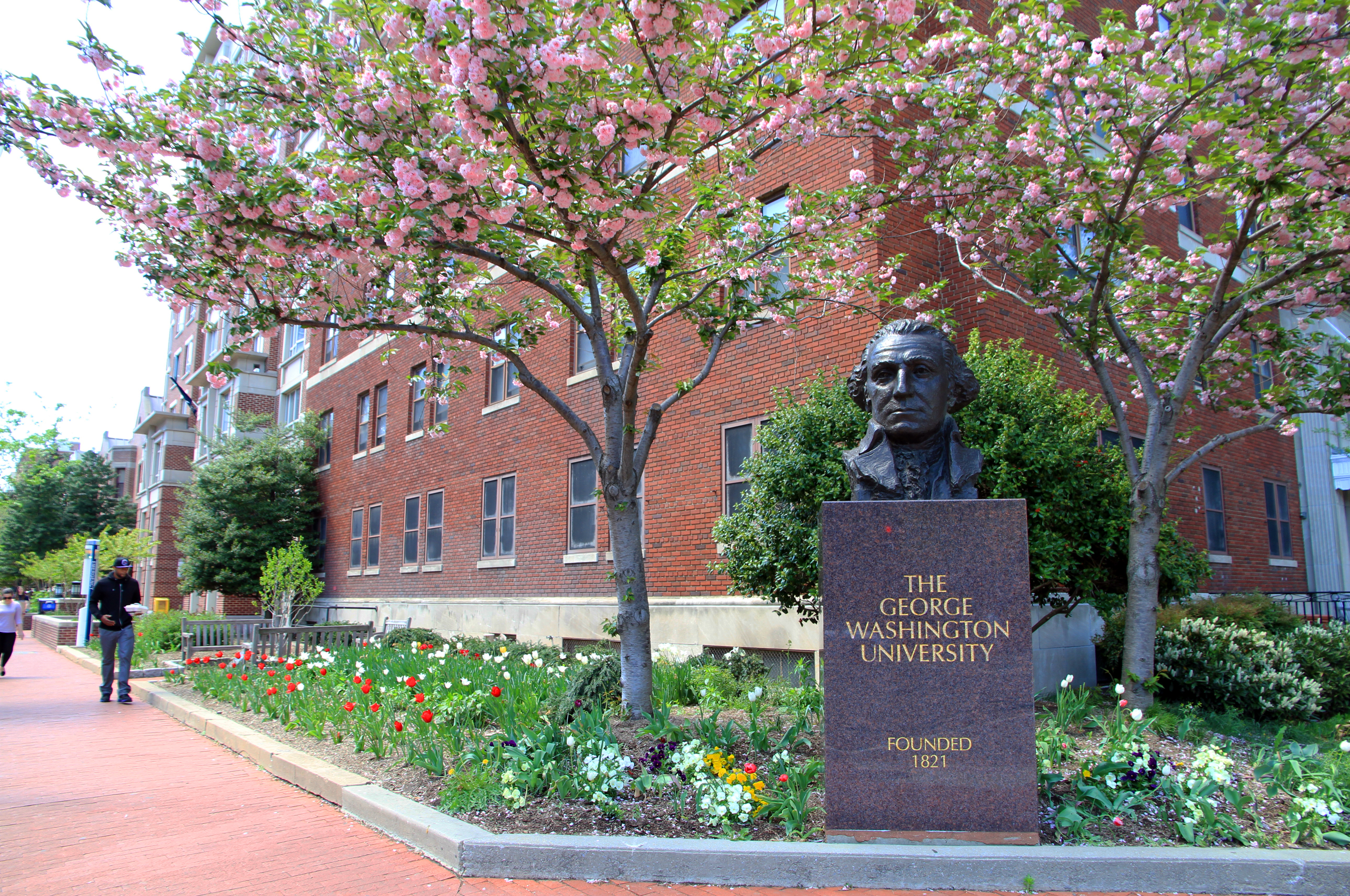 George Washington University